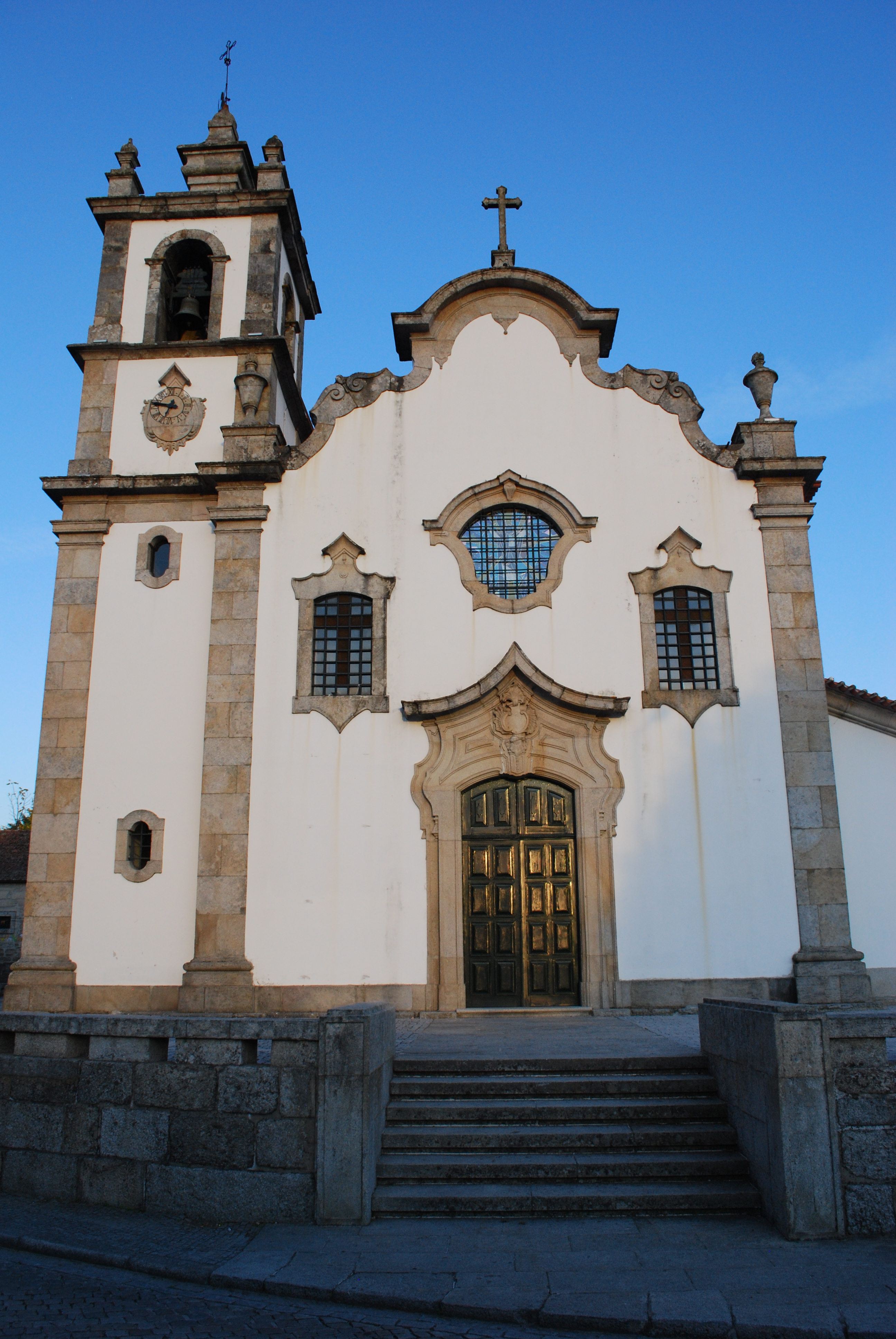 This file was uploaded for Wiki Loves Monuments in Portugal with the unique identifier 73499.